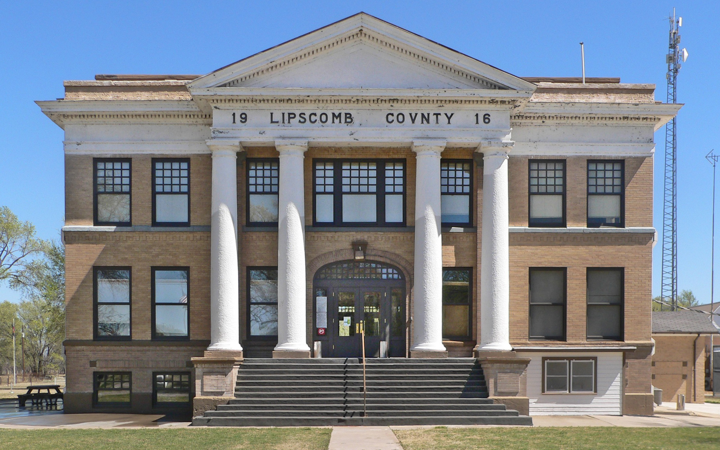 Lipscomb County courthouse in Lipscomb, Texas; seen from the west.